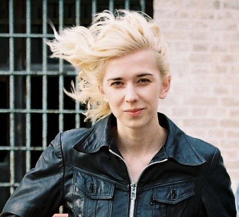 Actress Katariina Tamm